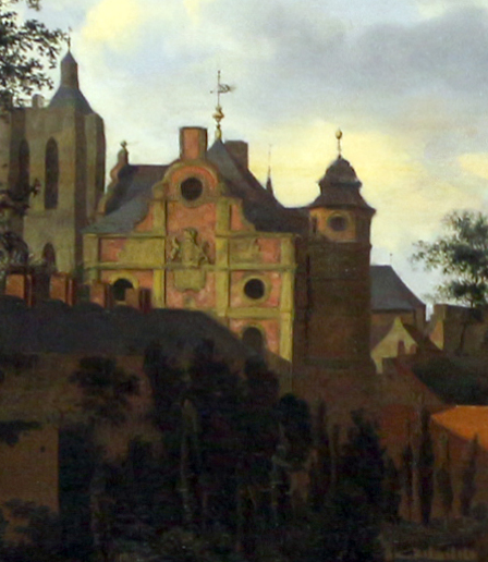 Paintings in the Toledo Museum of Art